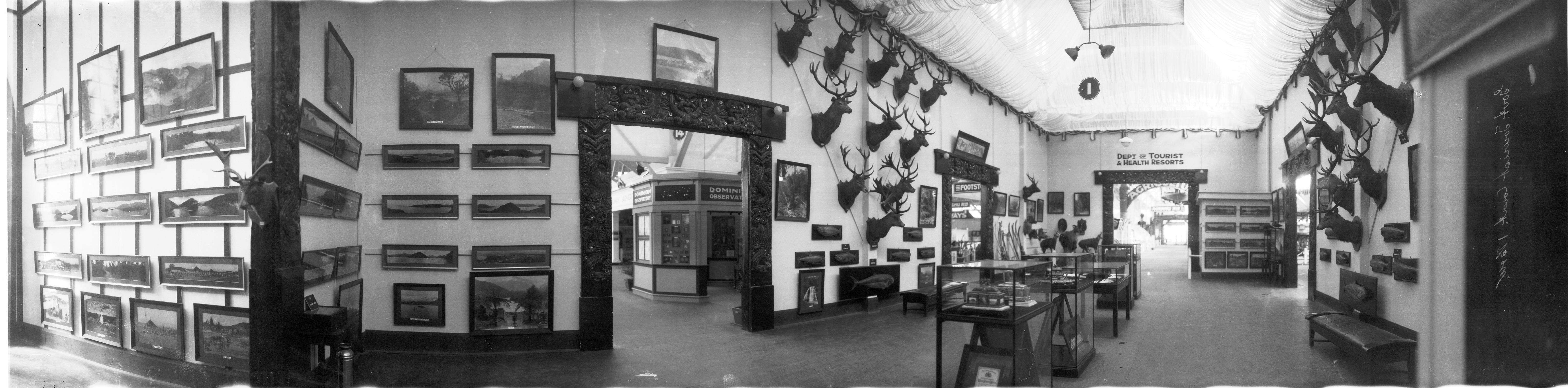 Photographer: Robert Percy Moore (1881-1948)[1] Government Tourist Court, New Zealand and South Seas Exhibition, Dunedin, 1925-26 Panoramic negative Reference number: Pan-0468-F Photographic Archive, Alexander Turnbull Library, National Library of New Zealand See a zoomable image on our Timeframes website